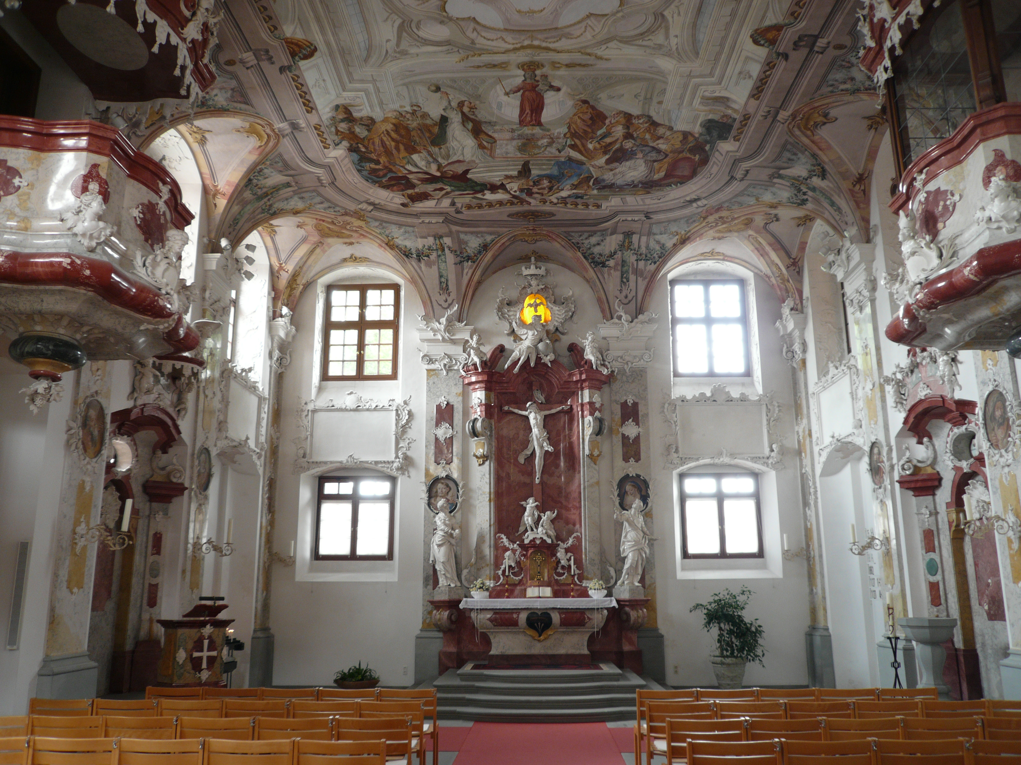 New Castle at Meersburg, chapel